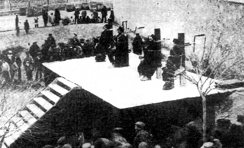 Execution of insurrectionists in Jerez 1892.